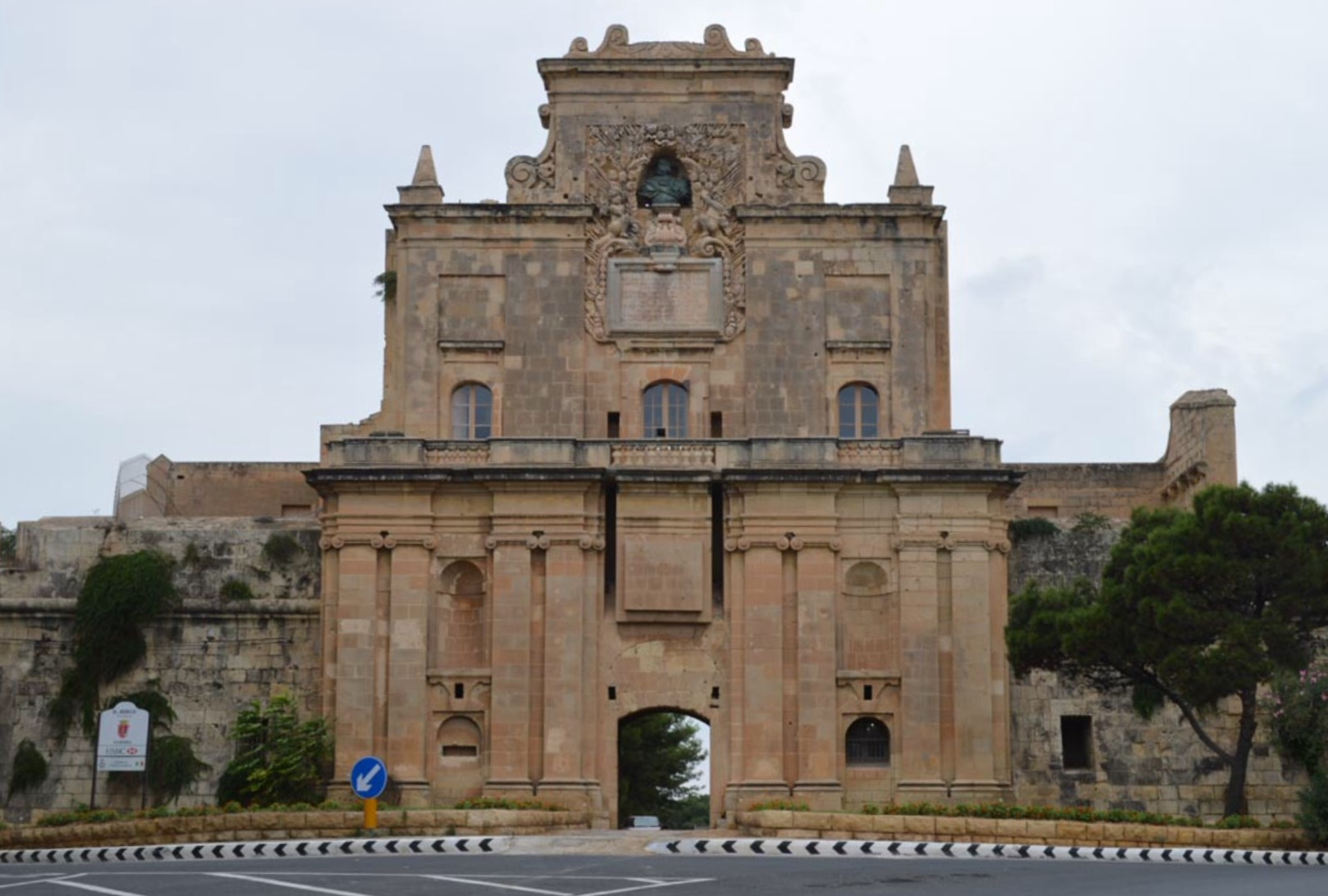 Notre Dame de la Grace Gate - Cottonera Lines This media is about Maltese cultural property with inventory number 01557.